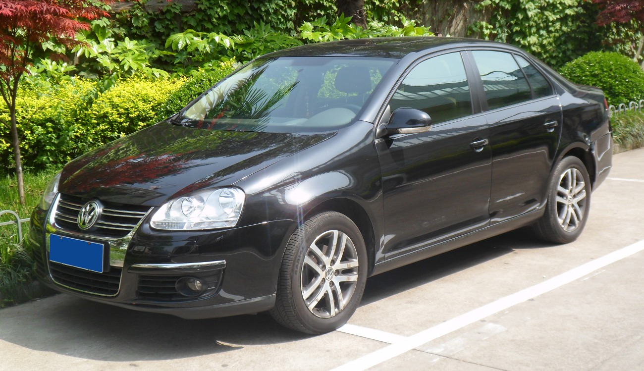 Volkswagen Sagitar photographed in Shanghai, China.